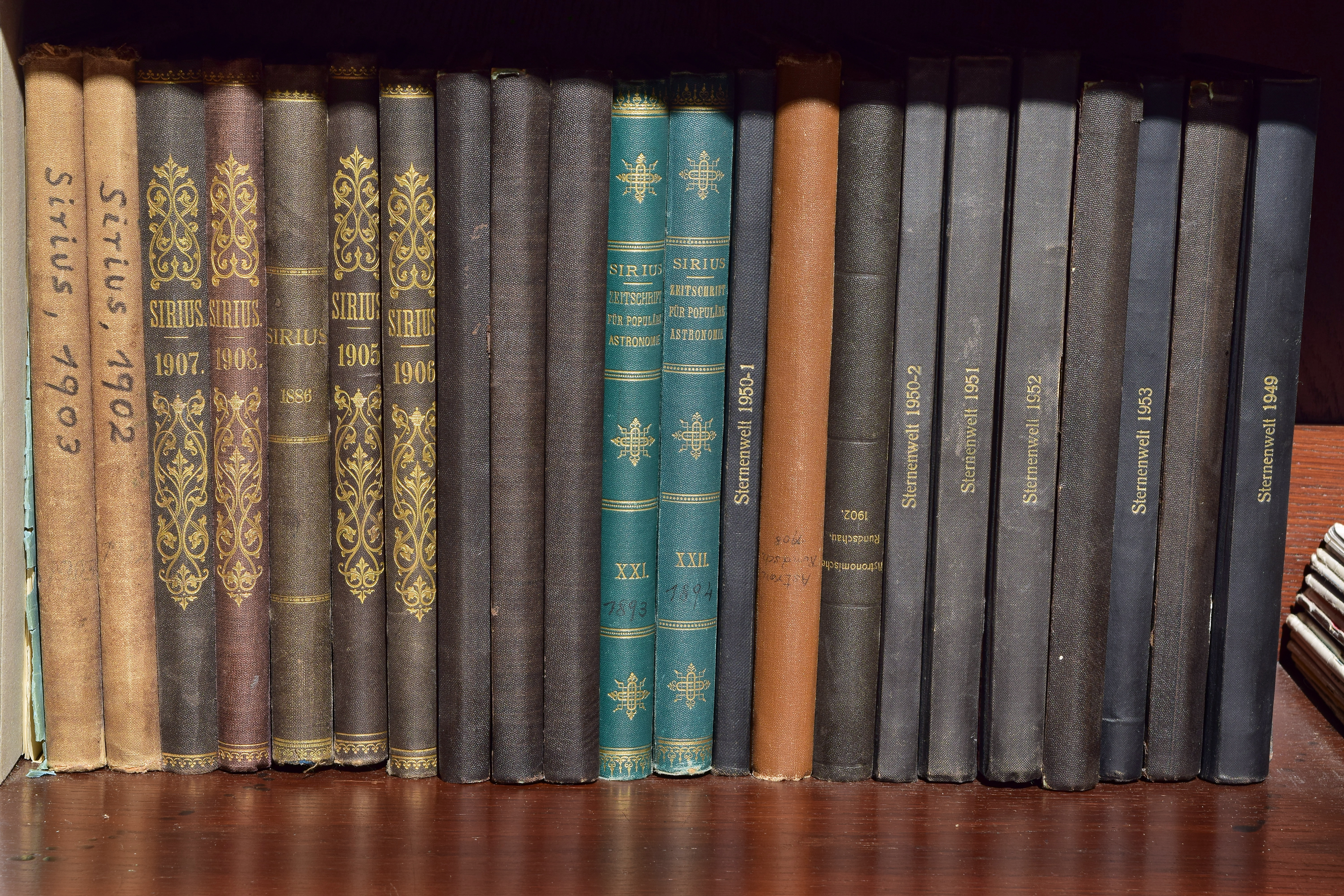 Astronomical Almanacs in the library of the Kuffner Observatory